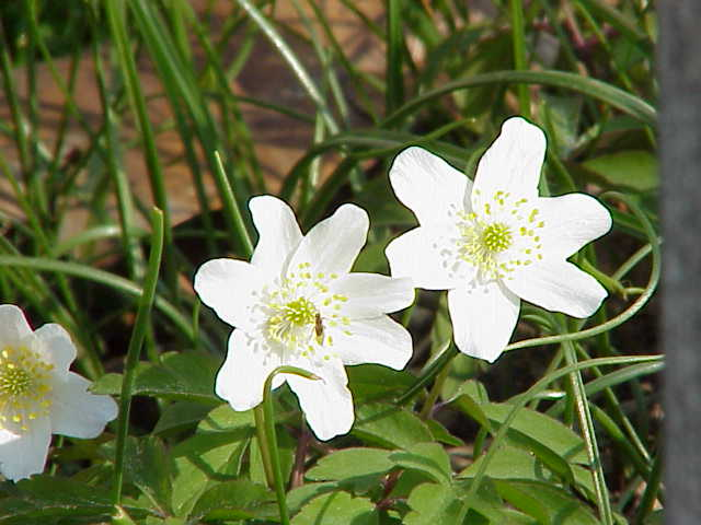 Species: Anemone nemorosa Family: Ranunculaceae Image No. 1